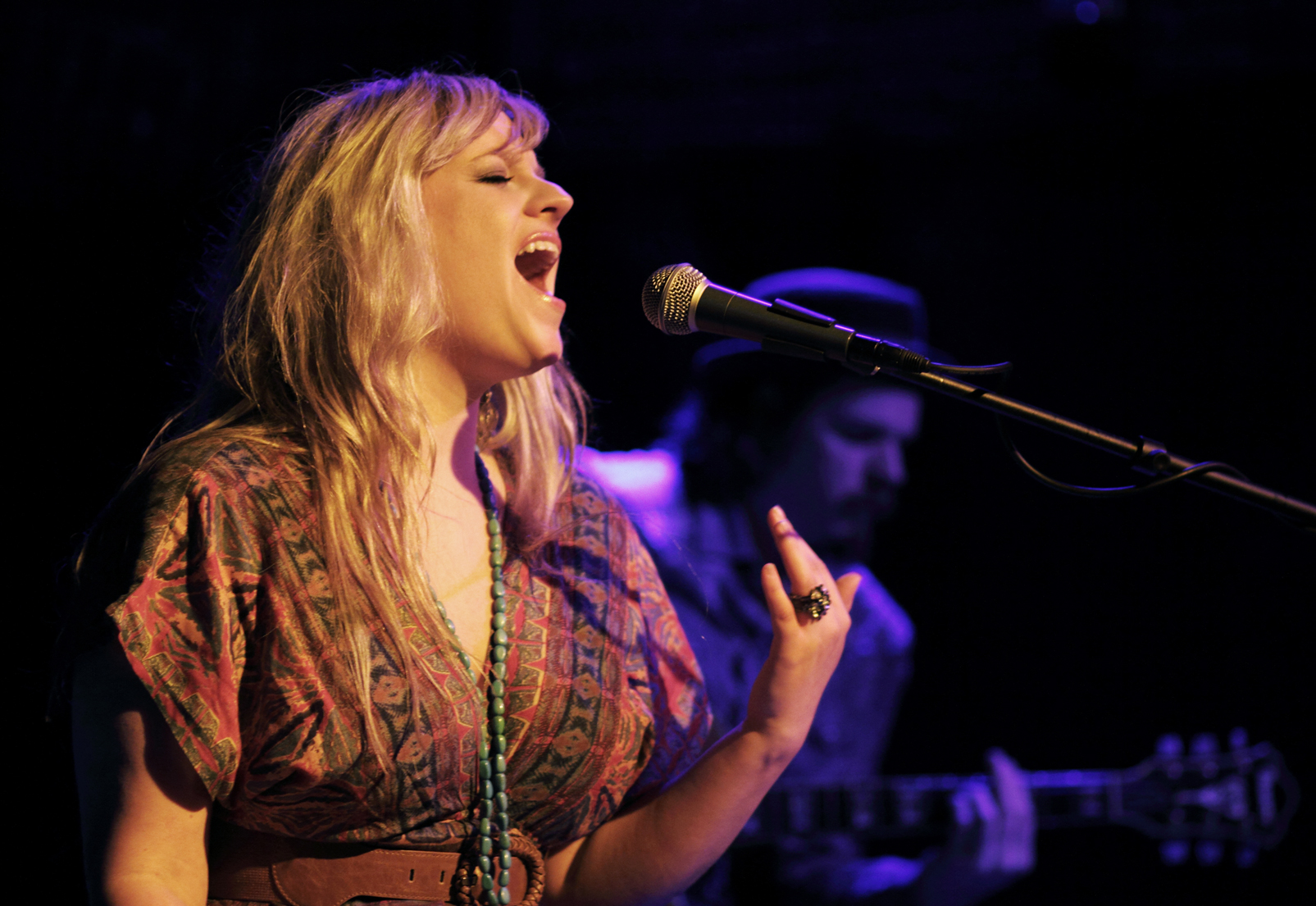 This photo was released by Zach VanDeHey for the express purpose of being released on Wikimedia/Wikipedia for Debra Arlyn's article under the Attribution ShareAlike 3.0 license. Info - Debra Arlyn Performing live at Someday Lounge in Portland Oregon. Photographer's website